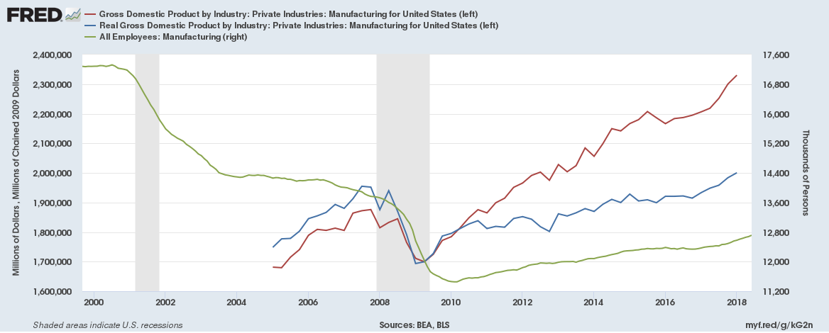 The US is manufacturing more than ever, but sector employment is stagnate after a long decline.